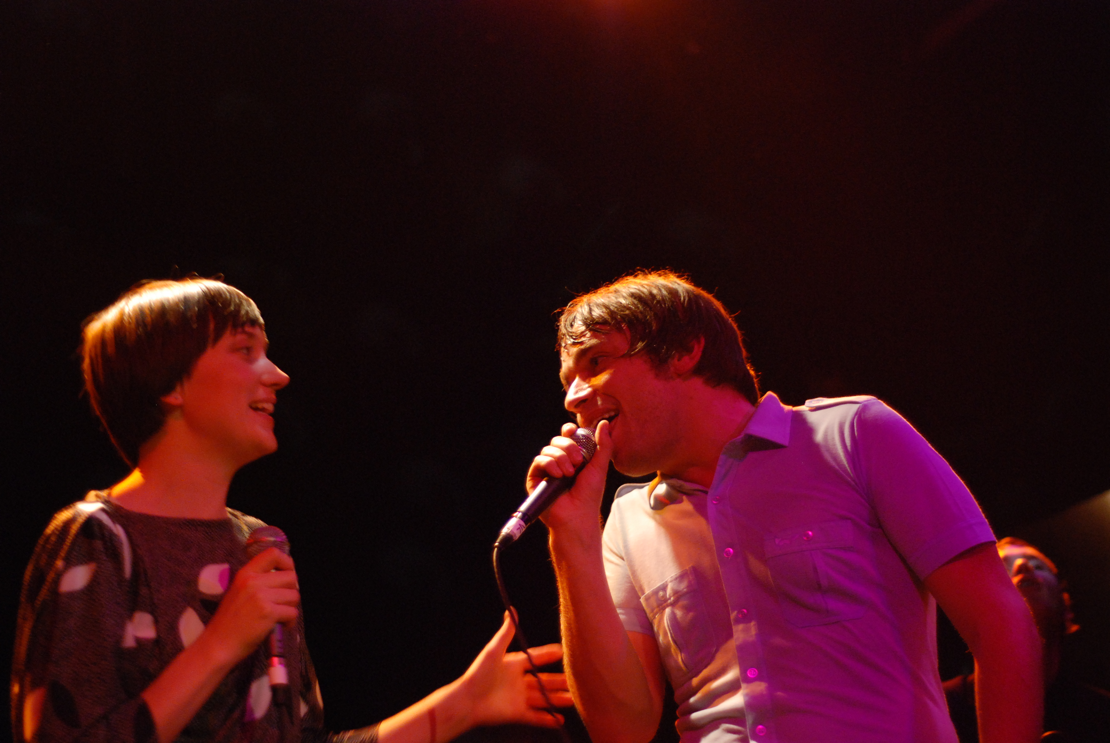 Victoria Bergsman and Peter Morén, New York, 2007.